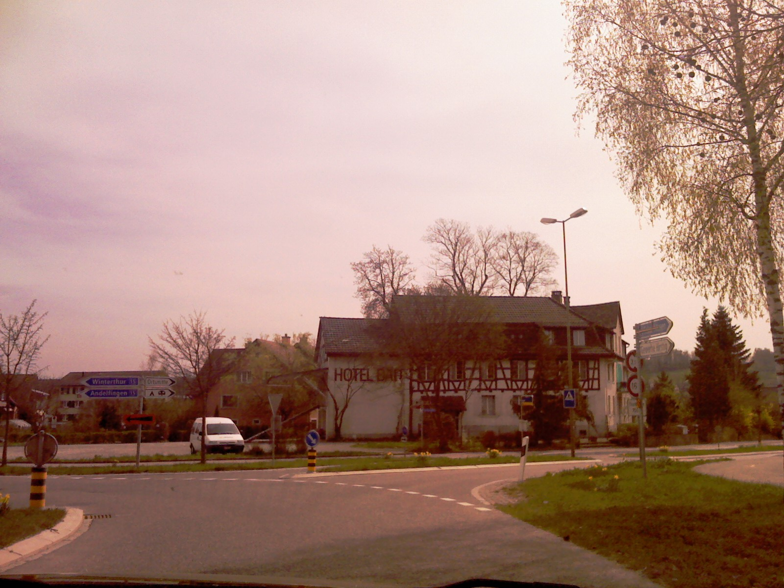 Hotel Bad at Kleinandelfingen, Canton Zürich, SwitzerlandEsperanto: Hotelo Bad en Kleinandelfingen, Kantono Zuriko, Svislando